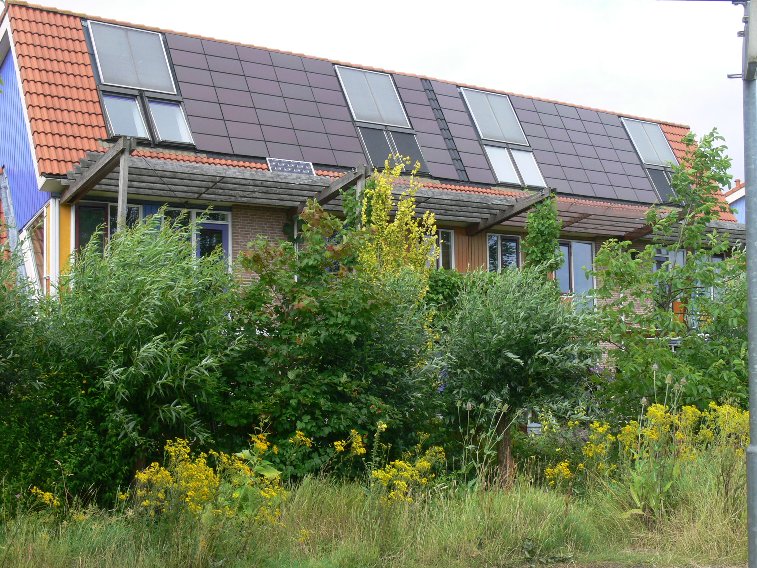 House and Hedge in E.V.A. Lanxmeer district (a "green distric" named Lanxmeer, built at Culemborg, The Netherlands), wich is a recent (1994-2009) district (semi-public eco-building) of approximately 250 ecological houses, several offices and a urban farm. The project is based on "Sustainable Implant" with a spatial combinaison of natural systems, technical approach of integrated waste (wastewater) / energy system and écological and social purposes, for an urban neighborhood. The district is in an ecologically sensitive area (former drinking waterextraction and retention area). The conception of this district is based on permaculture, and organic design, a small biogas installation (able to treate black water and organic waste and garden & park waste), a combined Heat Power. Some houses are in closed greenhouse. A semi-public building (the ‘EVA Centre) should yet be made, based on the Living Machine concept.